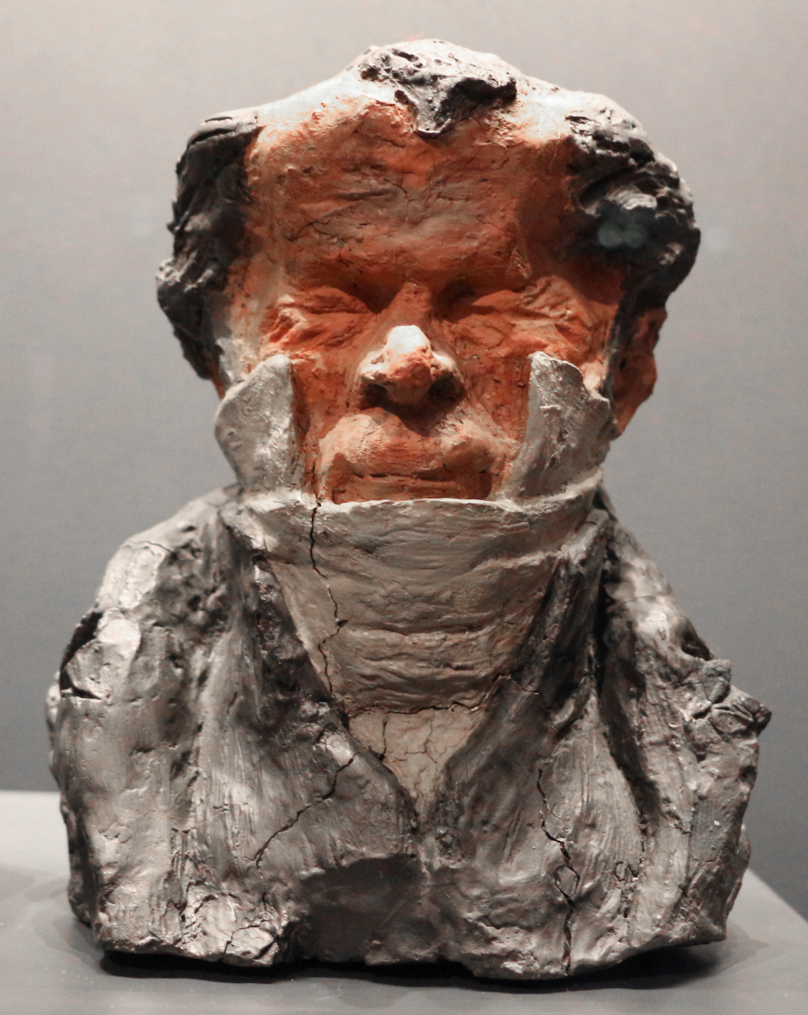 Célébrités du Juste Milieu